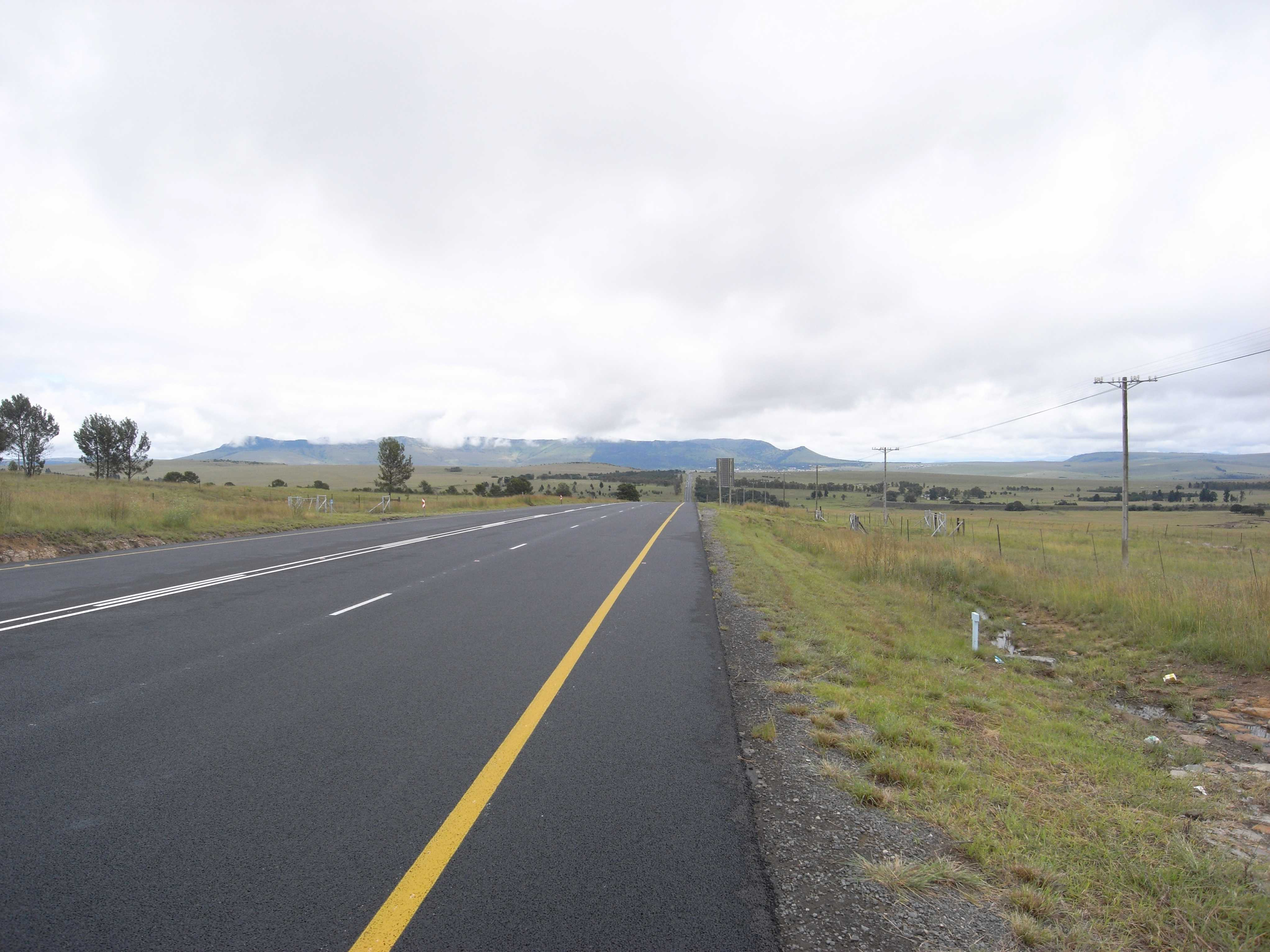 Cathcart, landscape around the town with Windvogelberg, view to north (Eastern Cape, South Africa), National Road N6